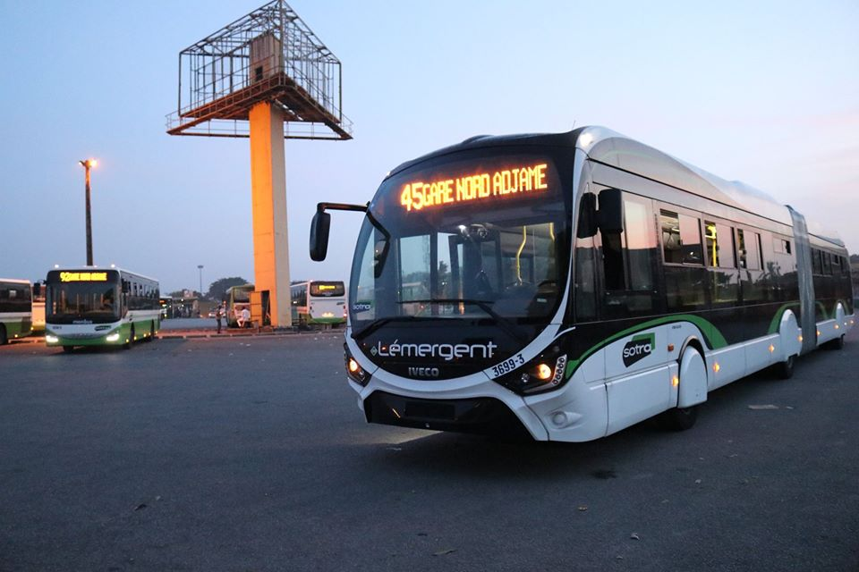 This is an image with the theme "Africa on the Move or Transport" from: Ivory Coast